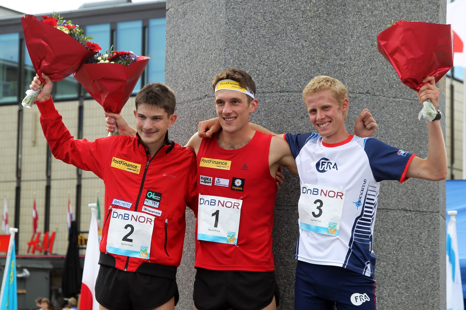 Fabian Hertner, Matthias Müller and Frédéric Tranchand at World Orienteering Championships 2010 in Trondheim, Norway